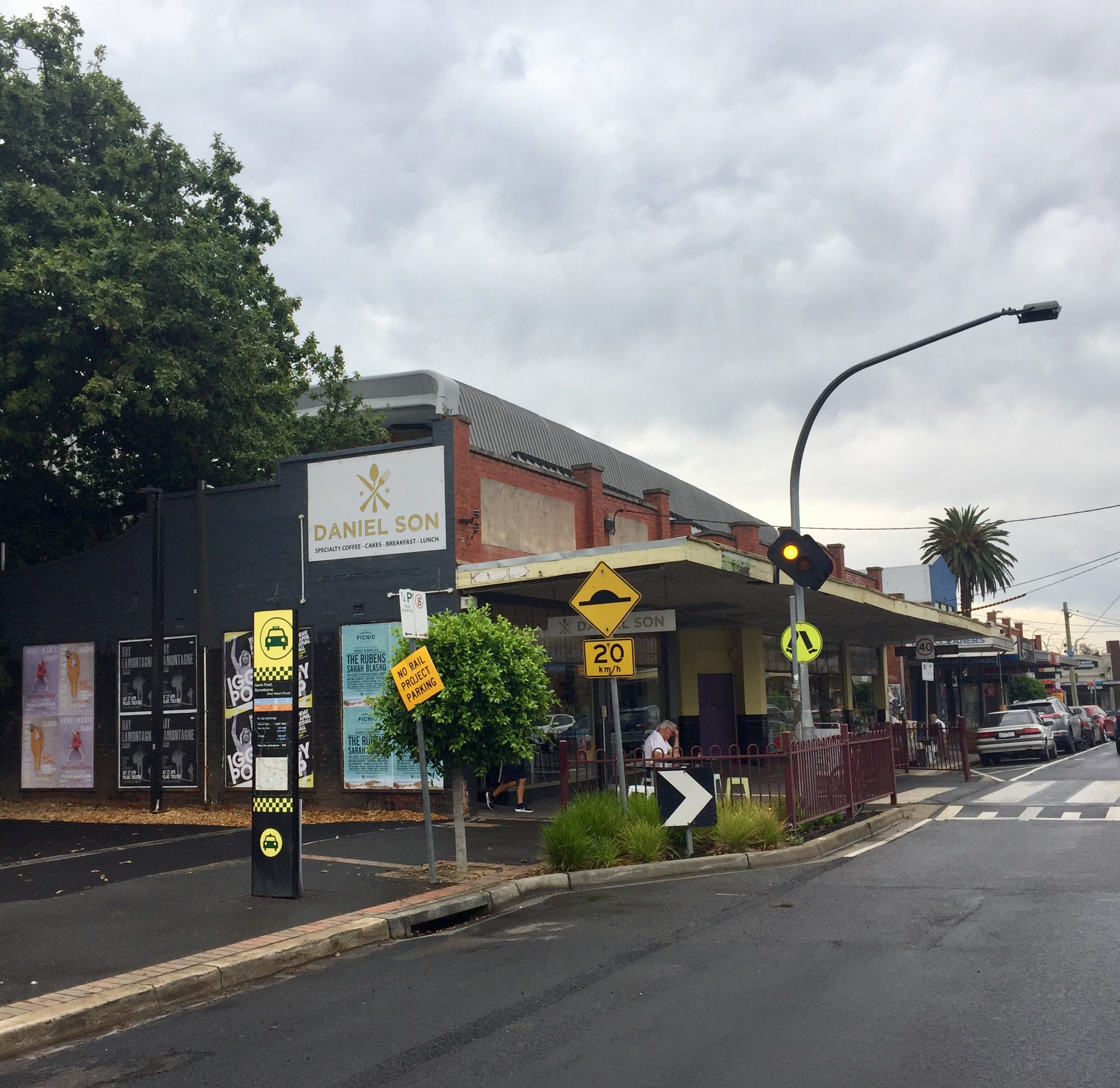 Murrumbeena village main street with train station in background in 2019